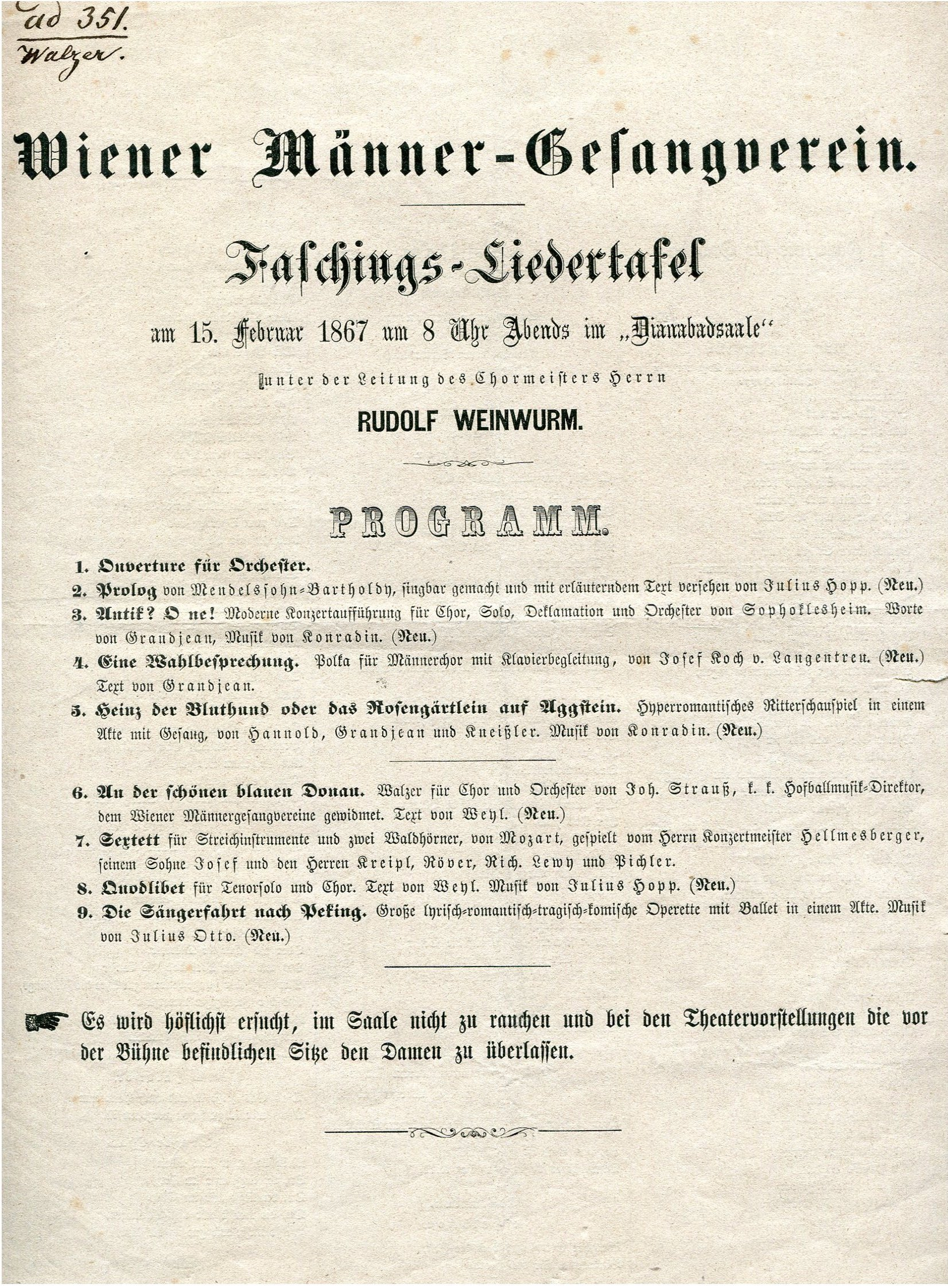 Original Program of the Premiere from "An der schönen blauen Donau".